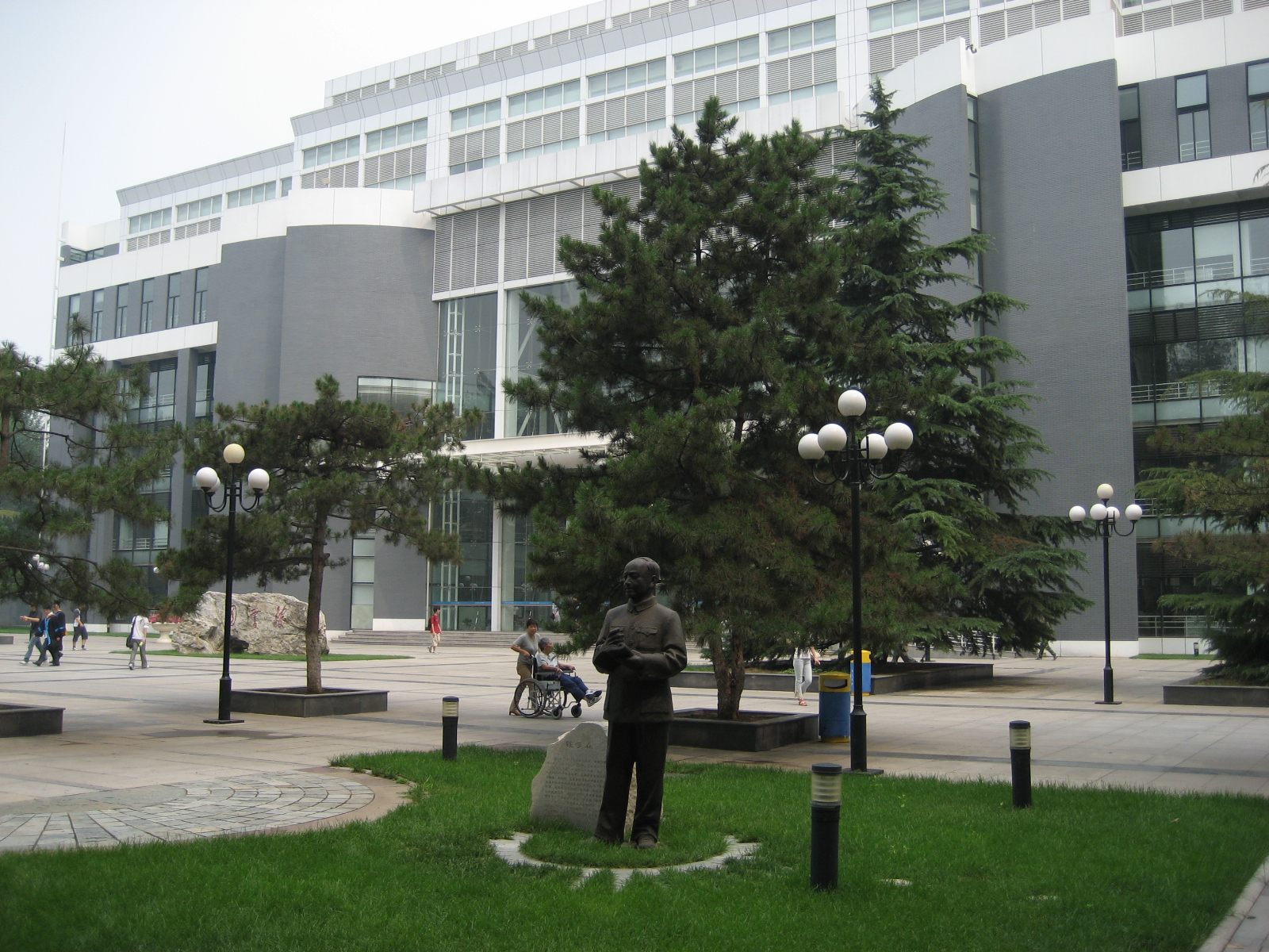 The library of Beihang University. The statue is Xuesen Qian (Tsien Hsue-shen). He is a very famous scientist in China.